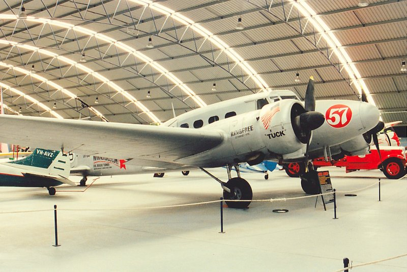 This Avro Anson was used in the making of the Australian television miniseries Half A World Away. It served as a "stand-in" to represent the Boeing 247 Race 57 flown by Roscoe Turner in the 1934 MacRobertson Air Race. It is depicted on display at the Airworld aviation museum at Wangaratta, Victoria. The aircraft now resides in New Zealand where it has been restored to stock military configuration and operates as a warbird.